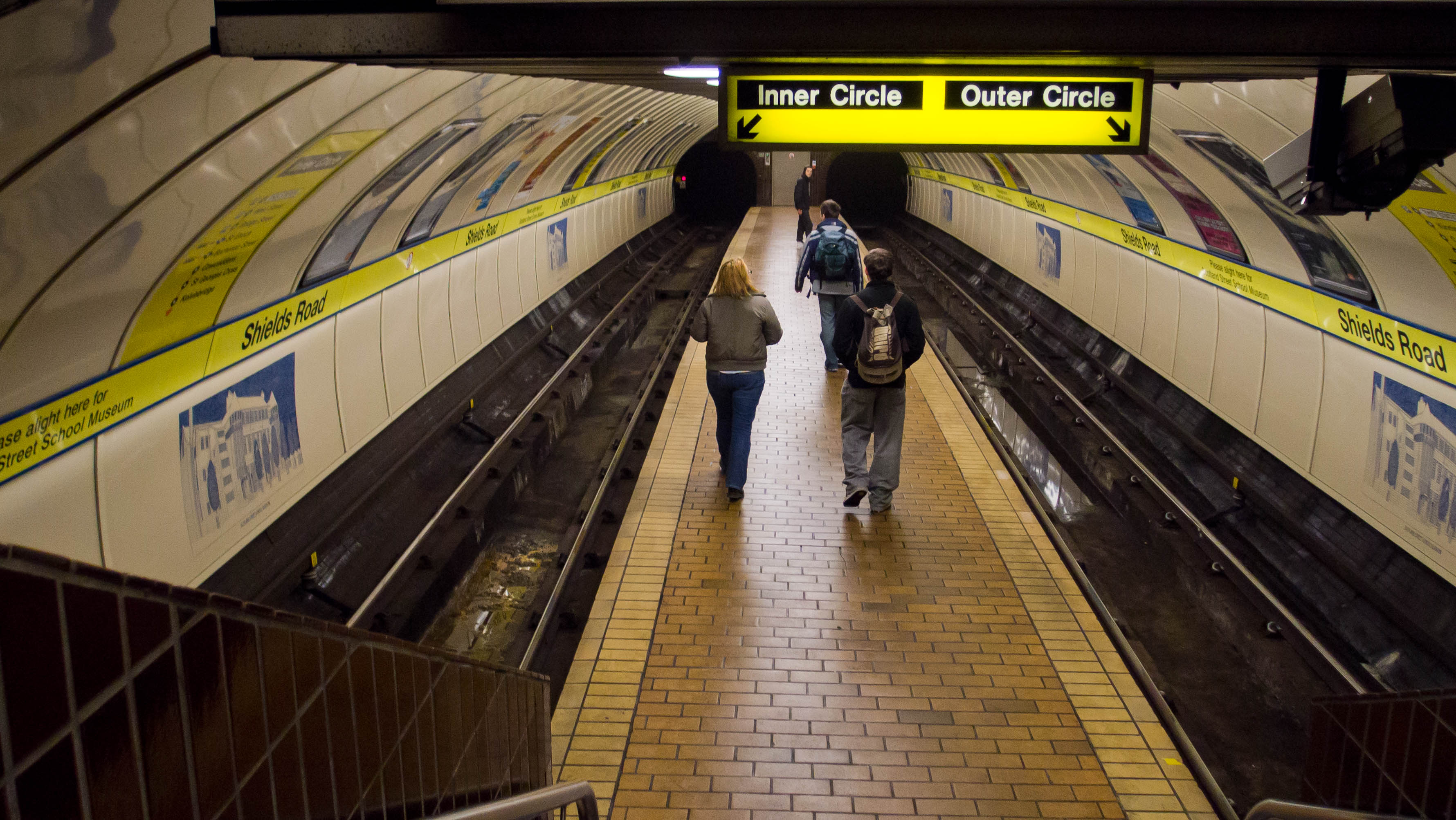 Shields Road subway station